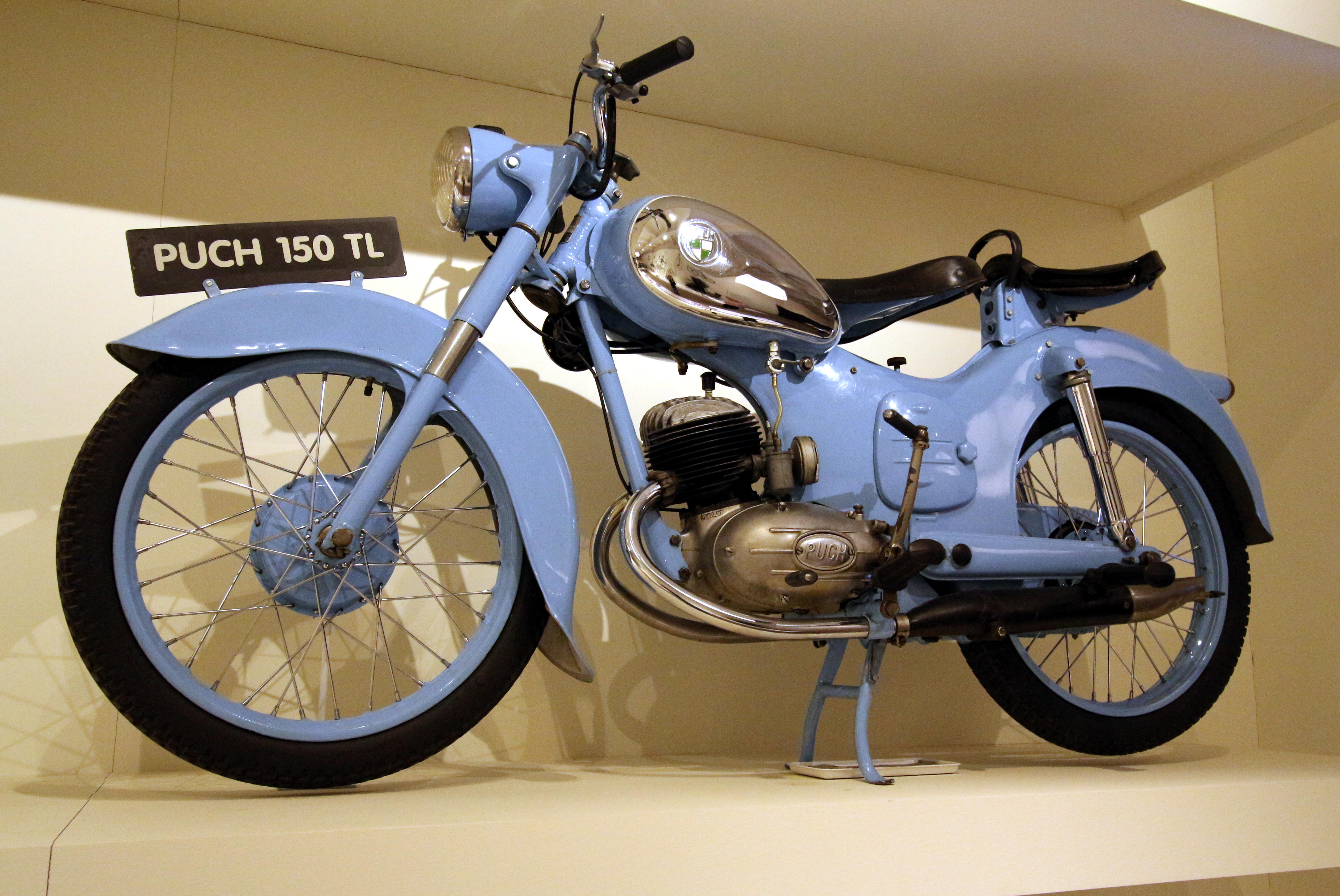 Motorcycle "Puch 150 TL" in the Technisches Museum Wien